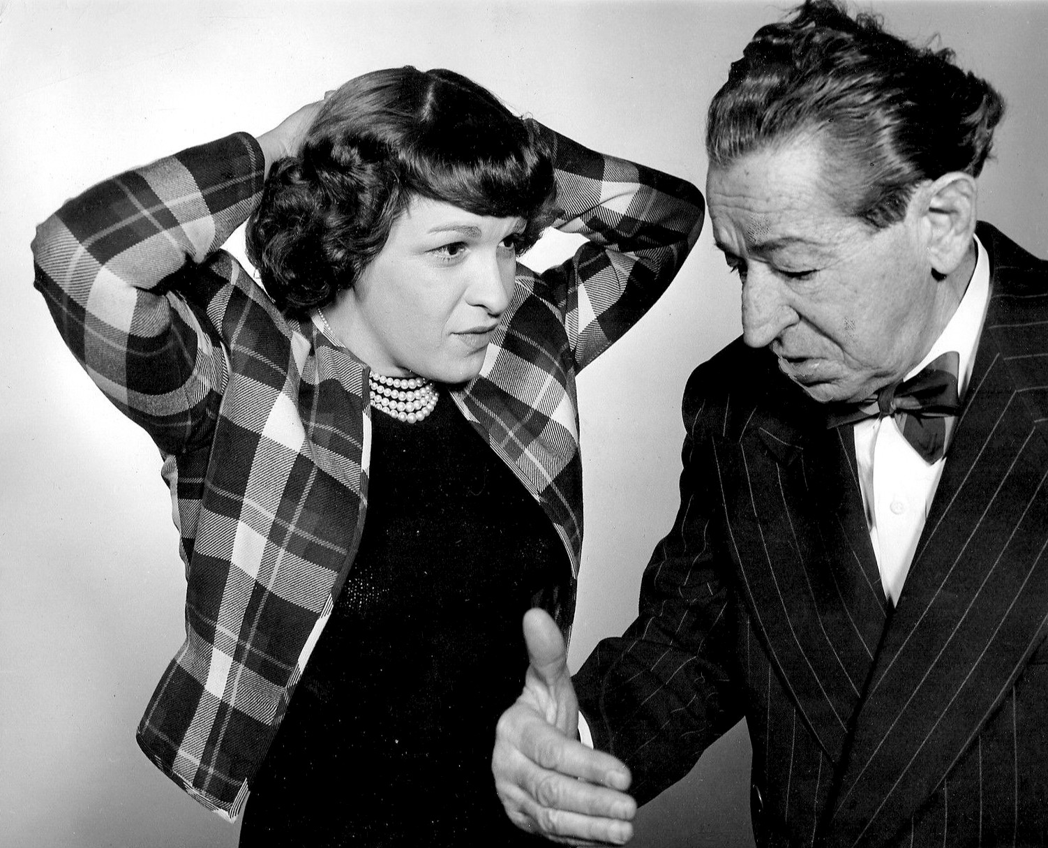 Photo of Nancy Walker and Willie Howard from the play Along Fifth Avenue. This was a pre-Broadway publicity photo; Willie Howard became ill during the play's Philadelphia run and died on January 14, 1949. The show was to open on Broadway the next day.